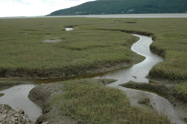 Salt marsh